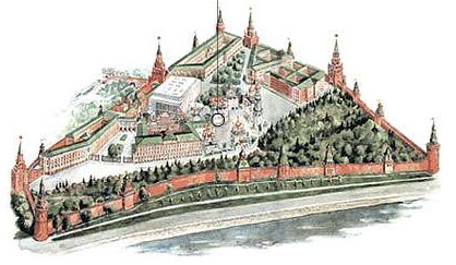 Overview map of the Moscow Kremlin. Location of The Cathedral of the Assumption marked.